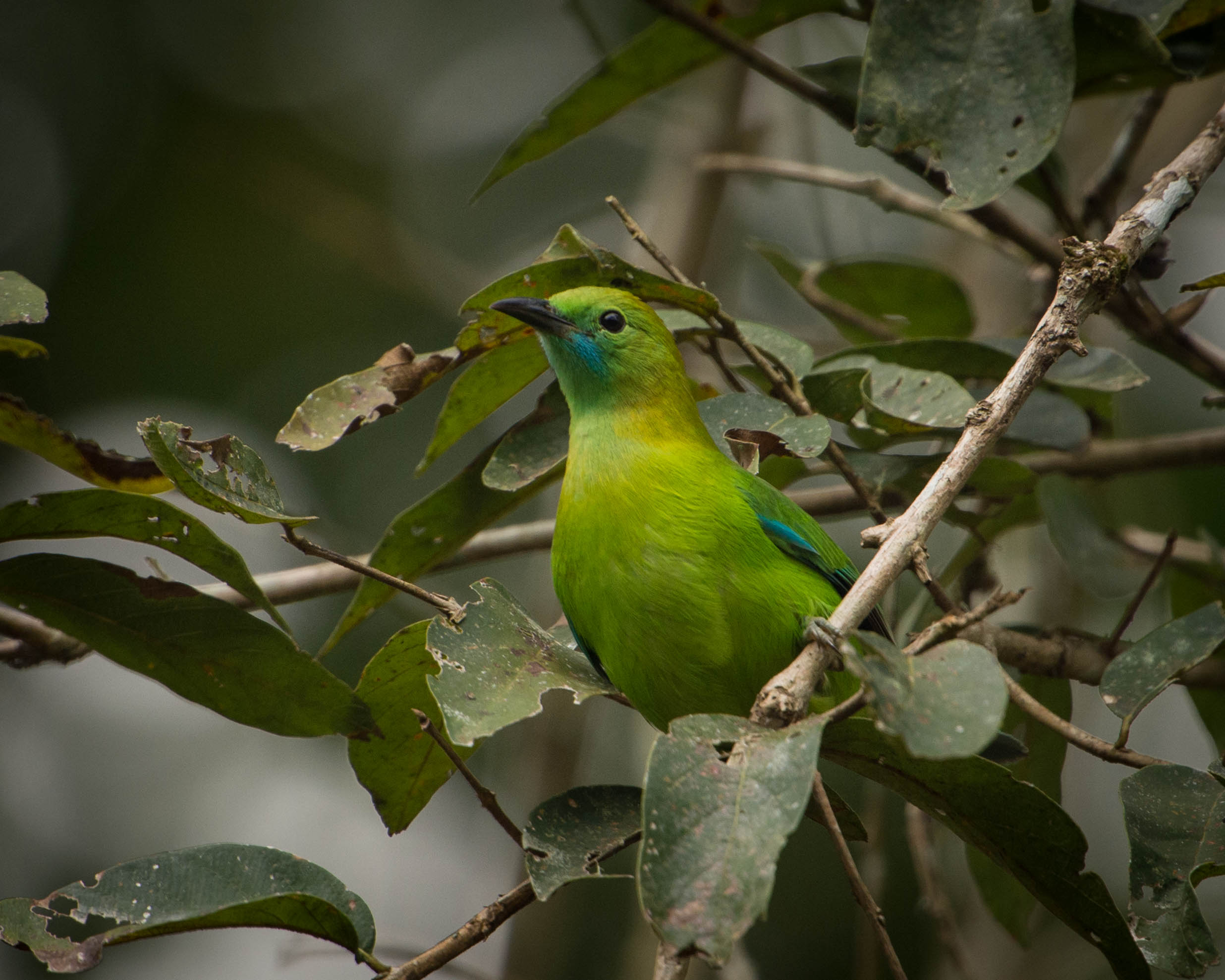 Lesser Green Leafbird (Chloropsis cyanopogon) at Kaeng Krachan National Park, Phetchaburi Thailand